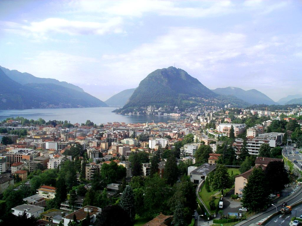 Lugano (Ticino). View on Lake Lugano and Monte San Salvatore